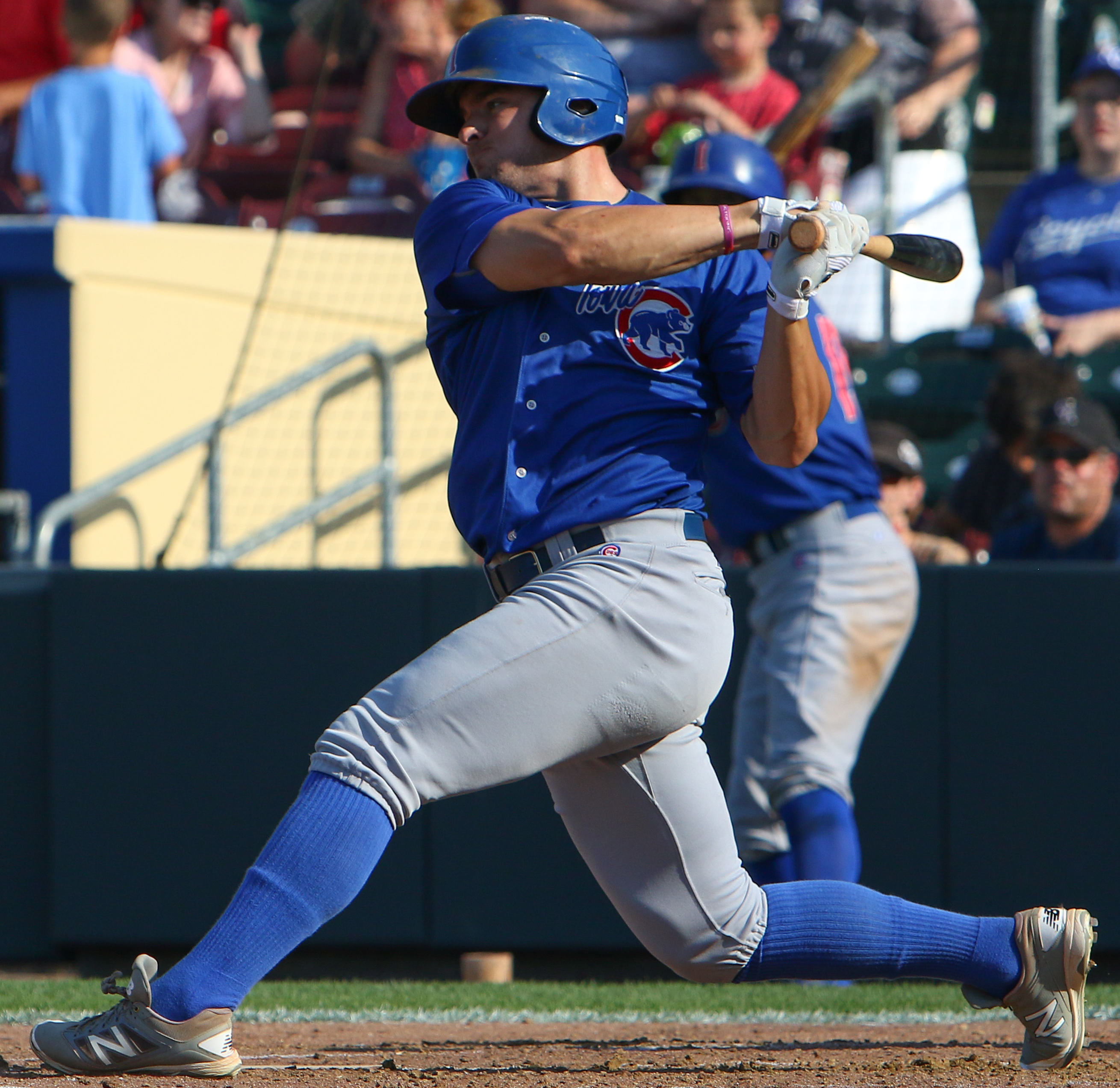 John Andreoli of the Iowa Cubs follows through on a swing during a 2016 game at Werner Park in Omaha.